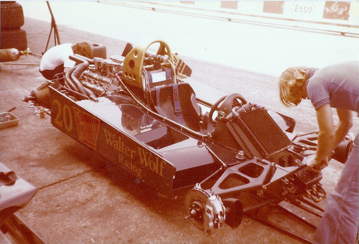 Wolf